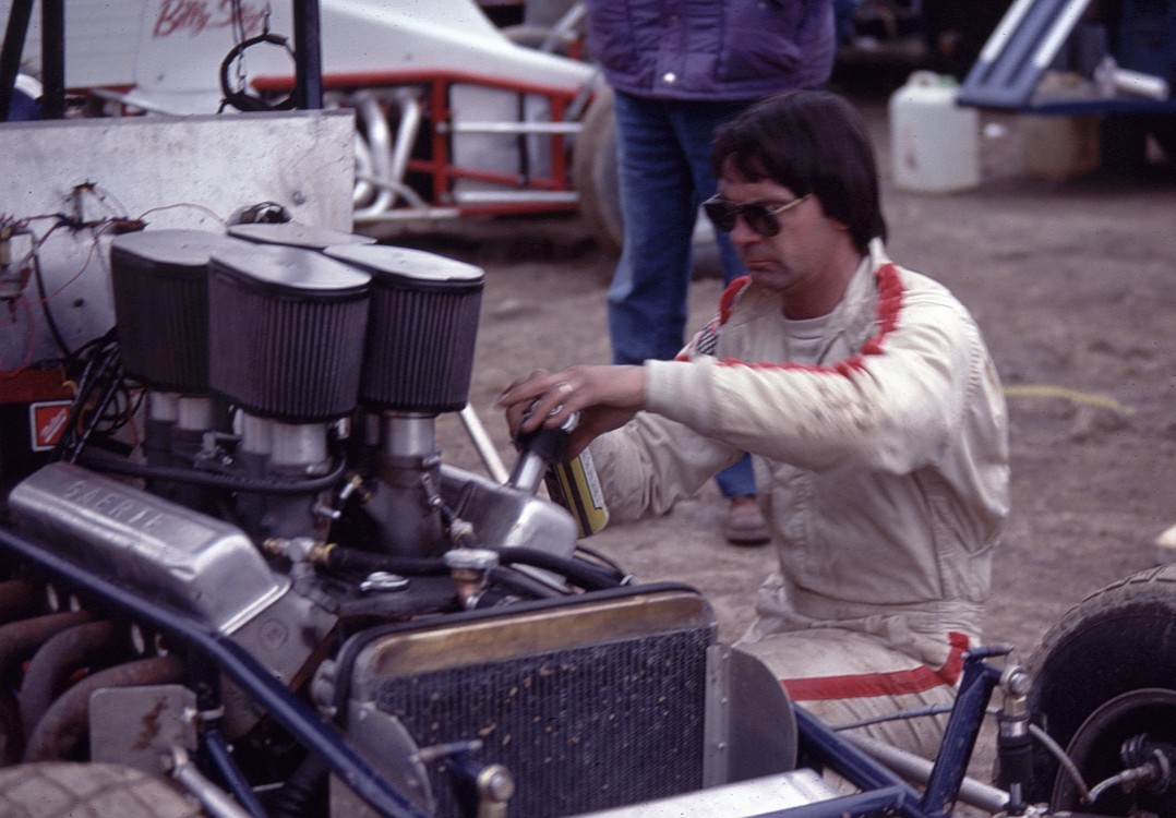 Sprint car racing driver Rich Vogler working on his sprint car at Port Royal in 1986. Taken by Ted Van Pelt.